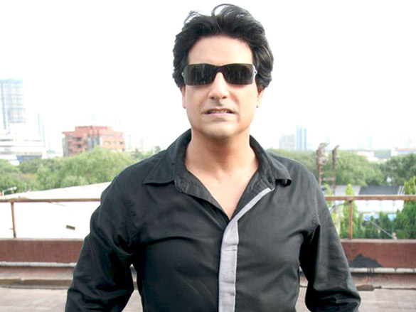 Shiamak Davar at Shiamak and Shailendra Singh unveil a new movie